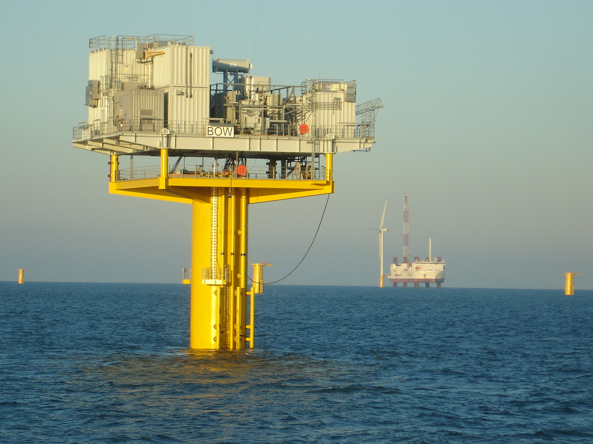 Offshore 132 KV Substation for Barrow Windfarm